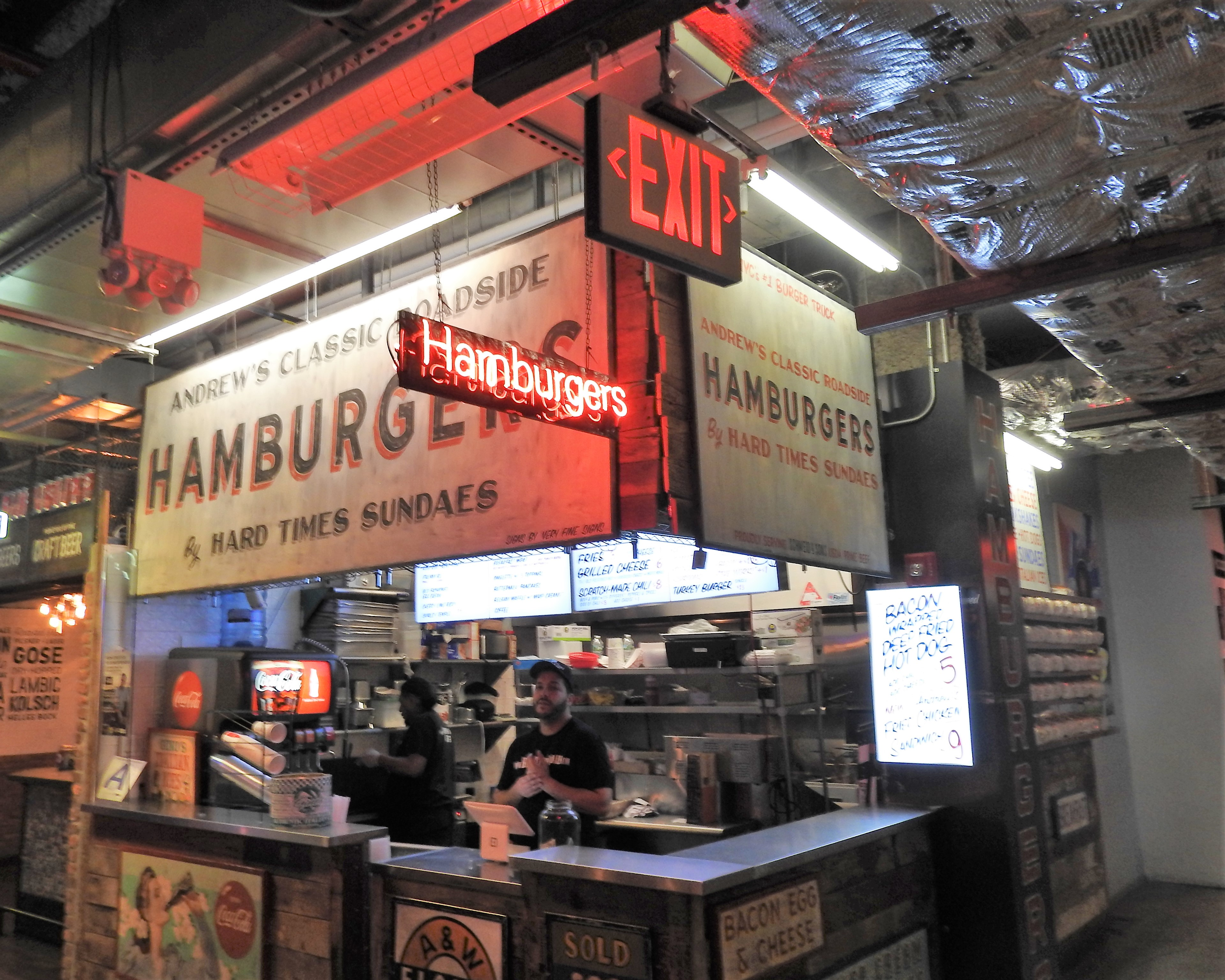 Burgers good but expensive. Hard to find a place to sit.